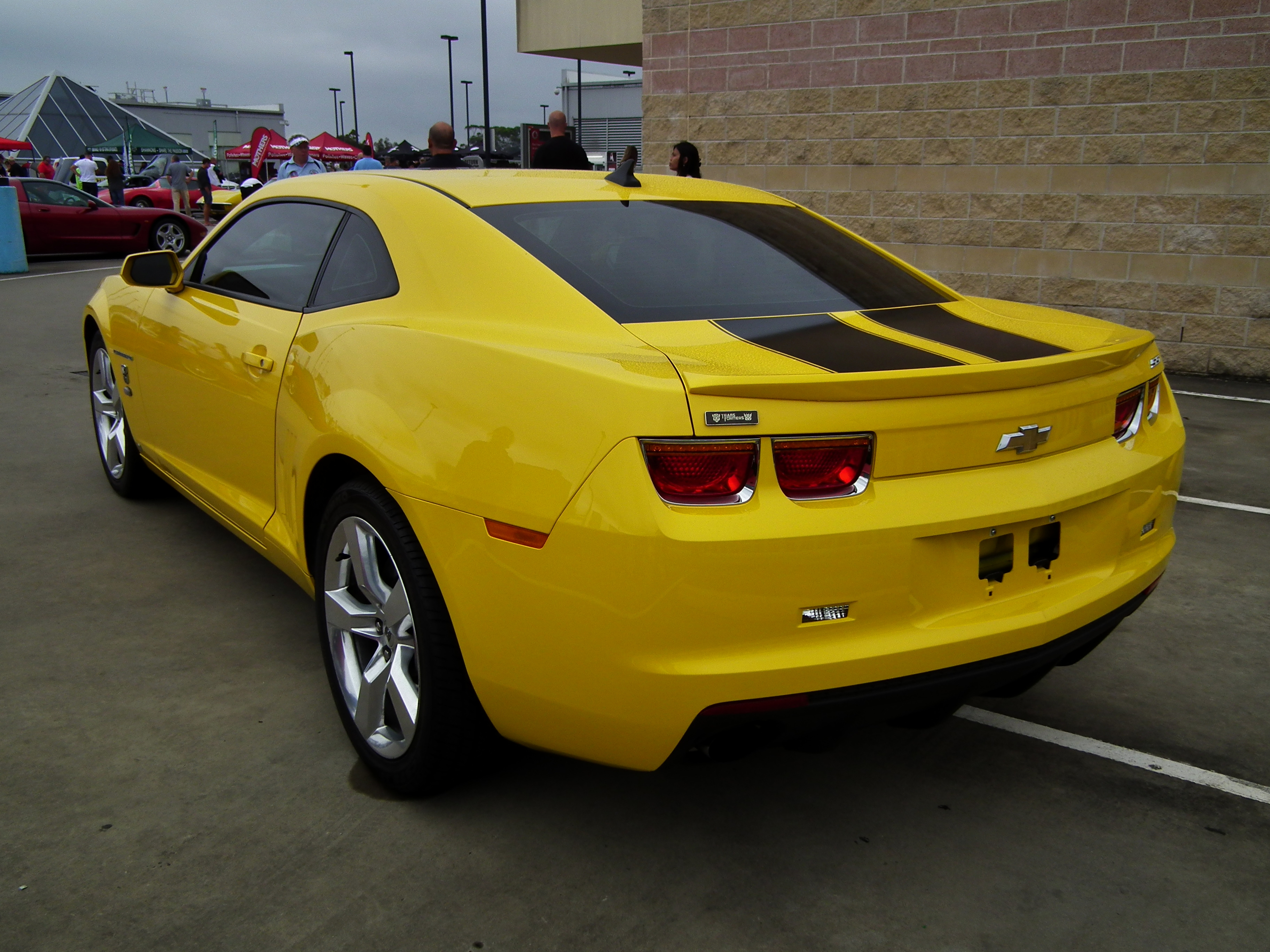 2010 Chevrolet Camaro SS Transformers Edition coupe. Taken at the 2013 New South Wales All American Day, held at Castle Towers Shopping Centre, Castle Hill, Sydney.